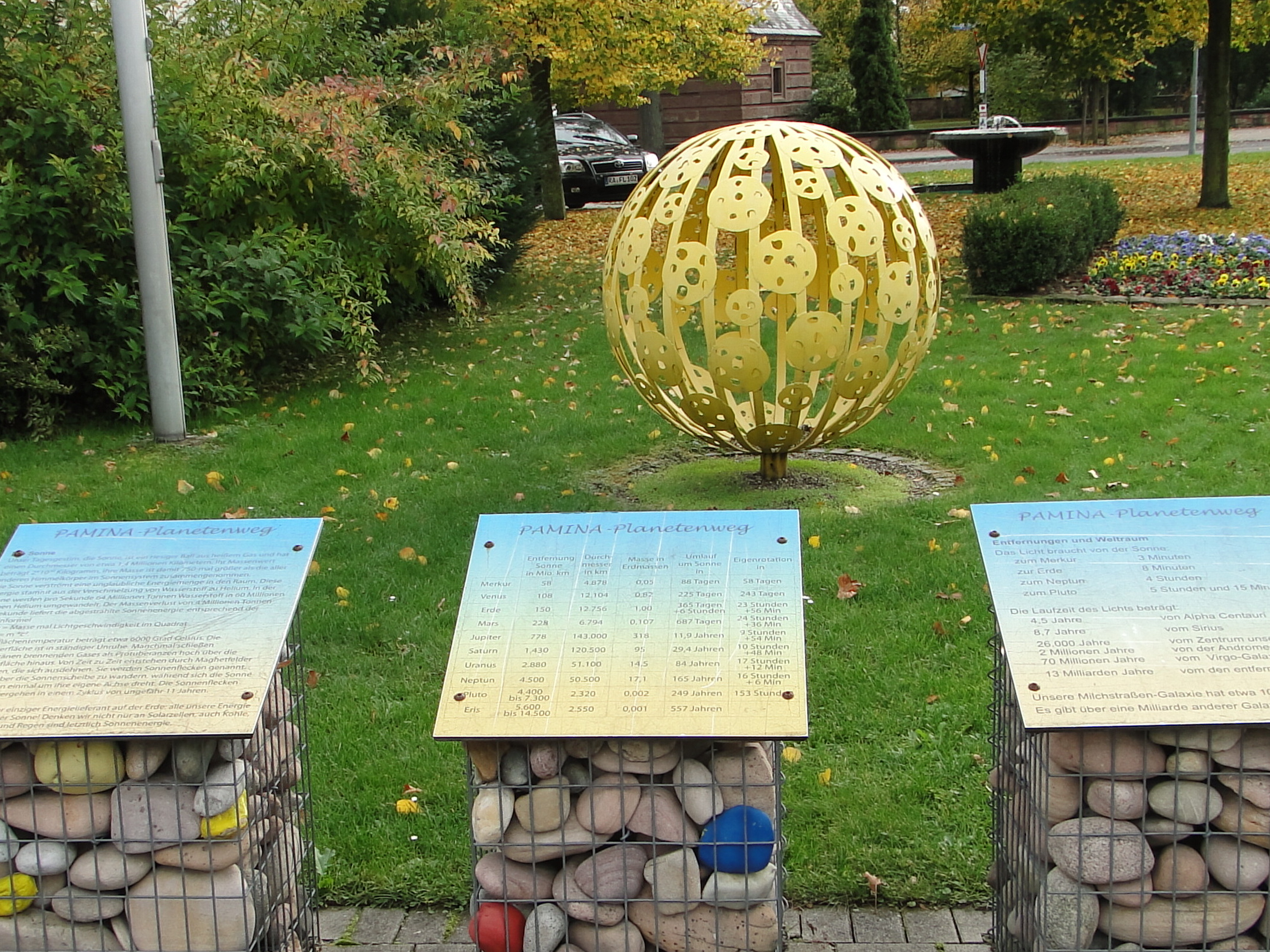 Sun model of the planet trail in Durmersheim (Germany)